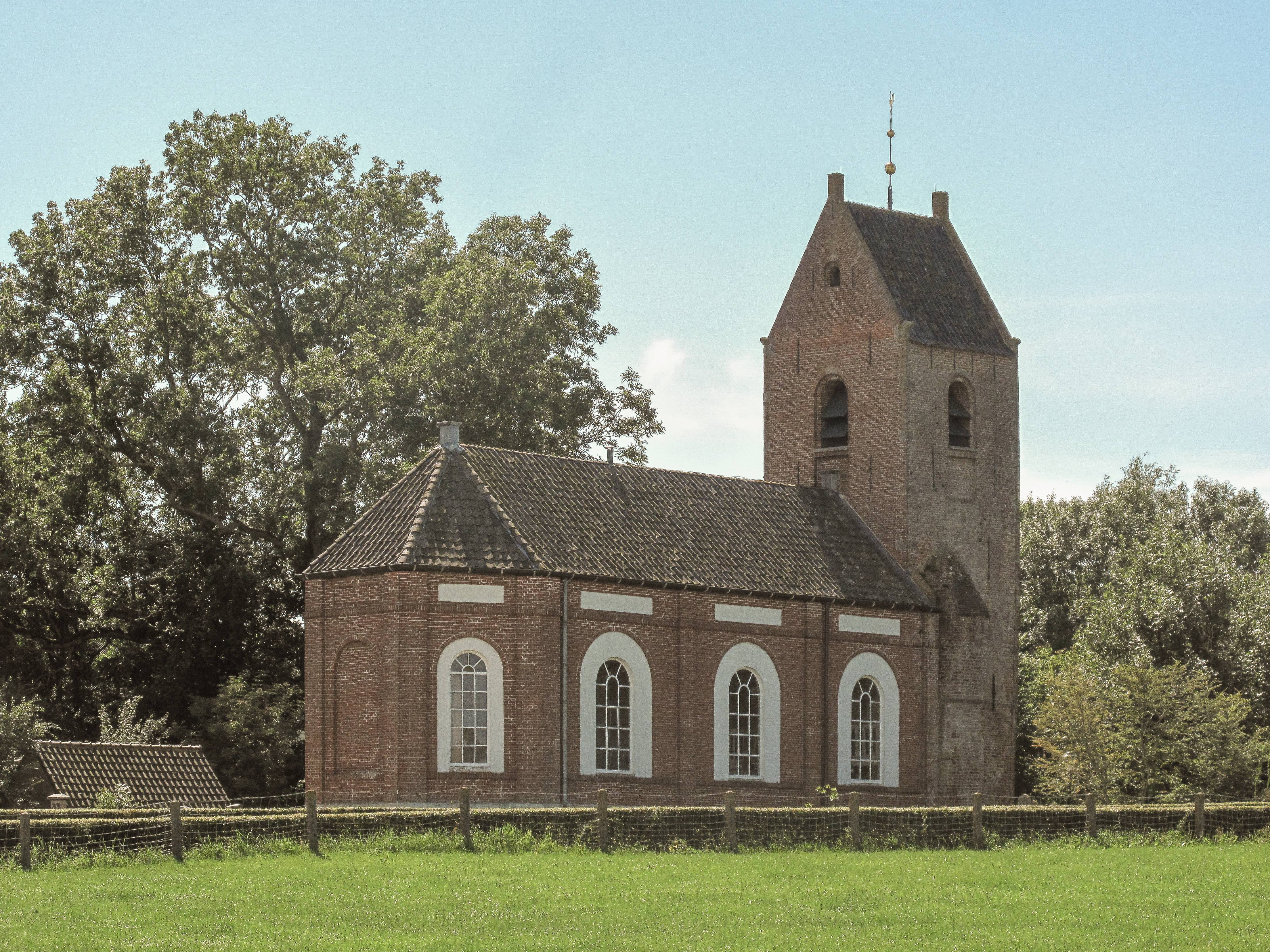 Saaksum, reformed church